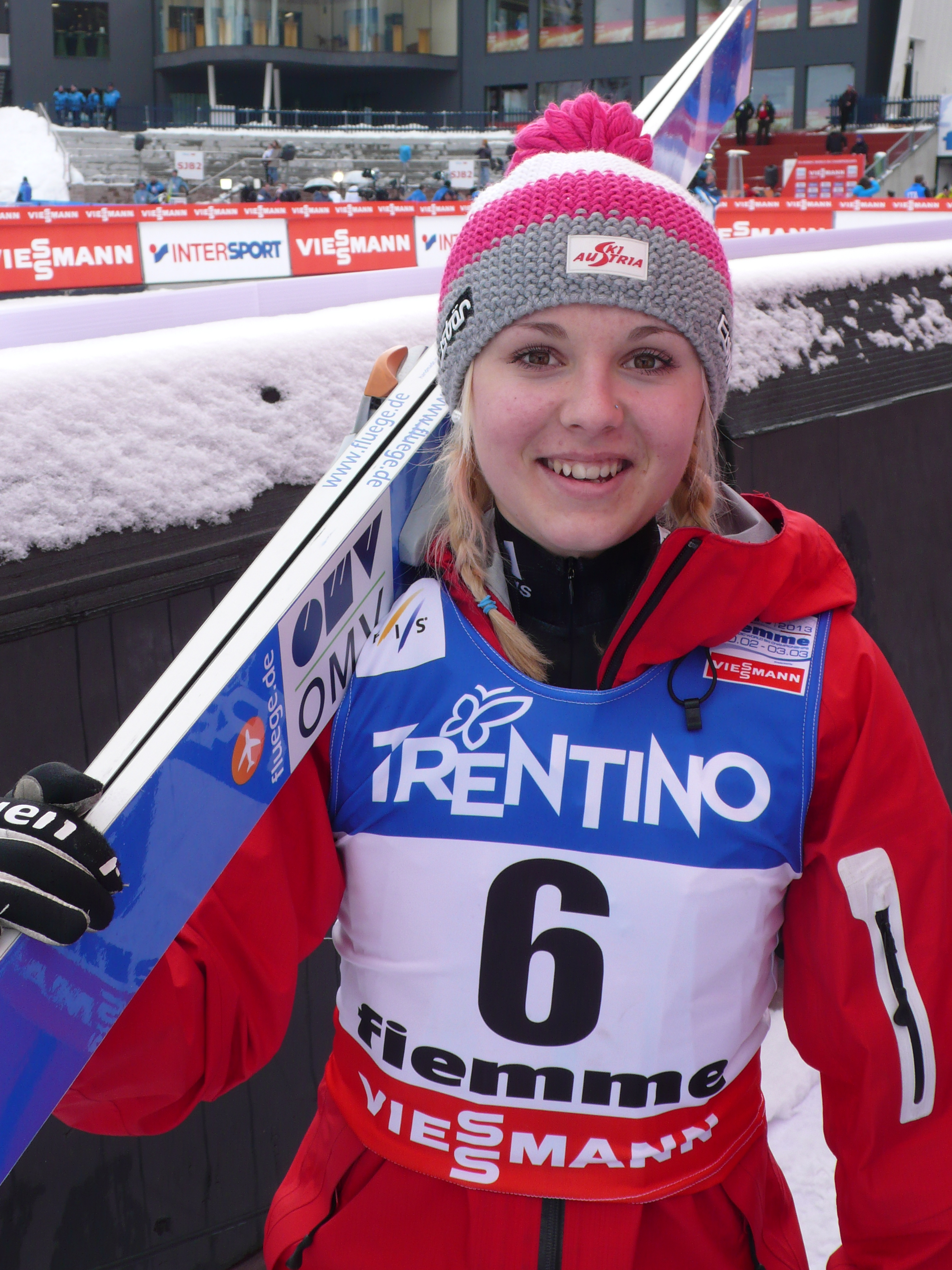 Chiara Hölzl